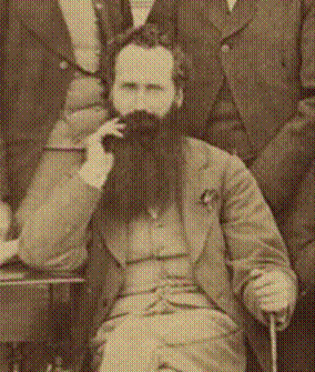 Robert Lawson, architect from Newzealand